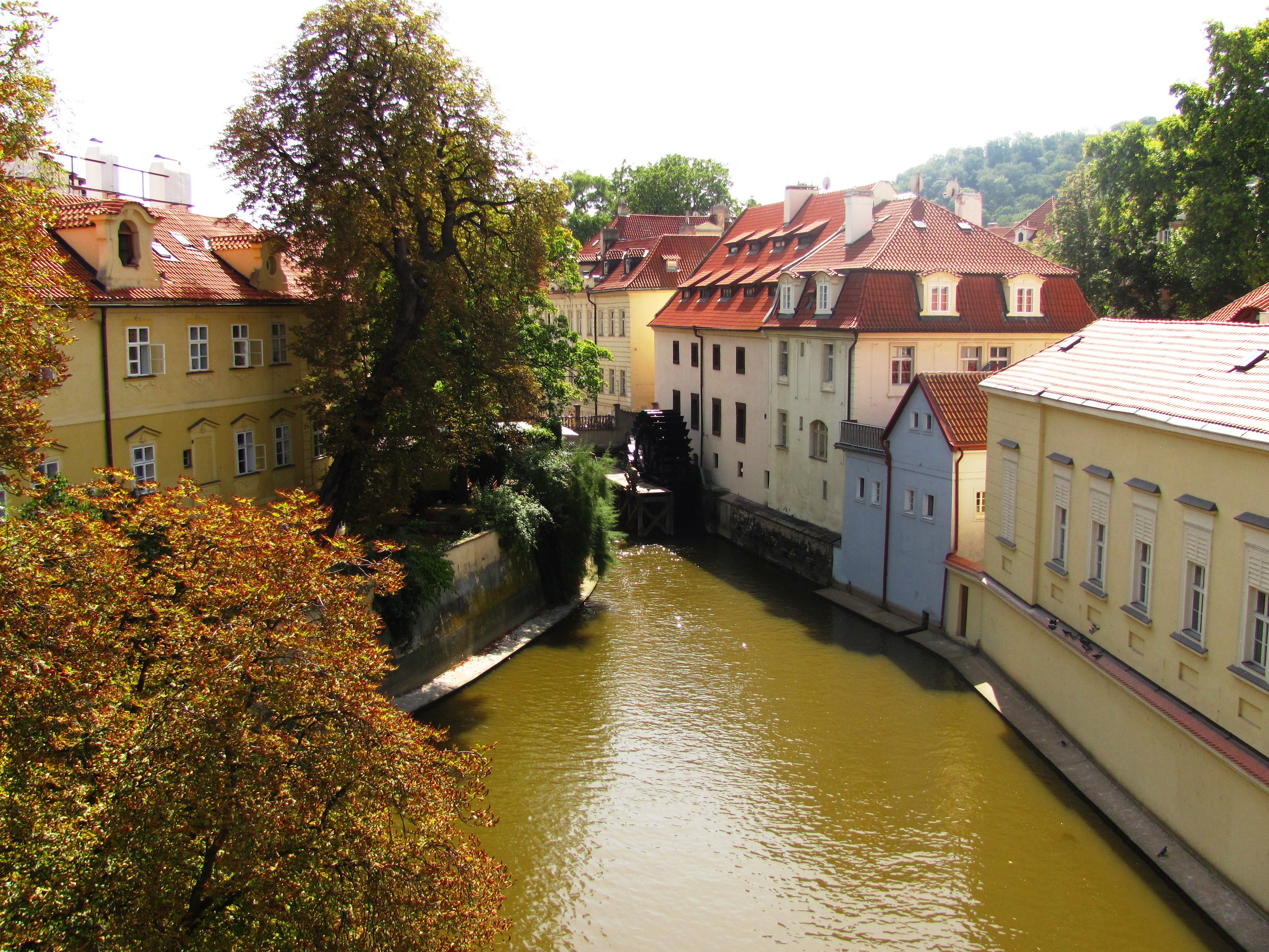 Čertovka, Prague